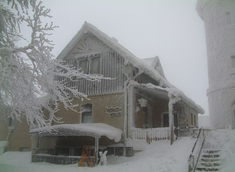 Turmbaude Hochwald, Lusatian Mountains, Germany, Czech Republic